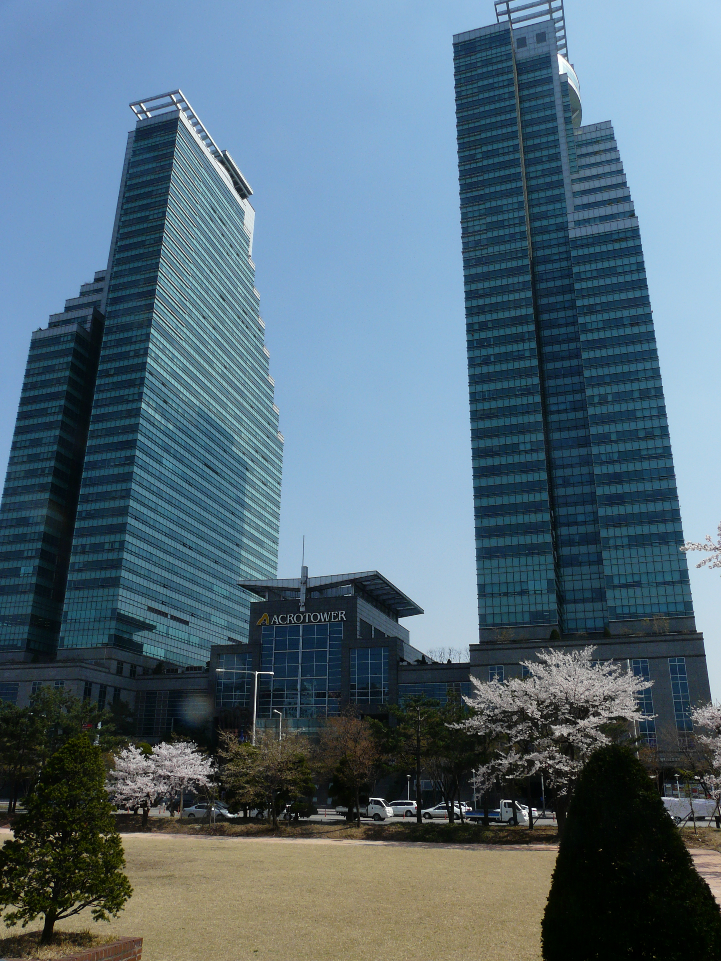 Photos from the city of Anyang, Korea.